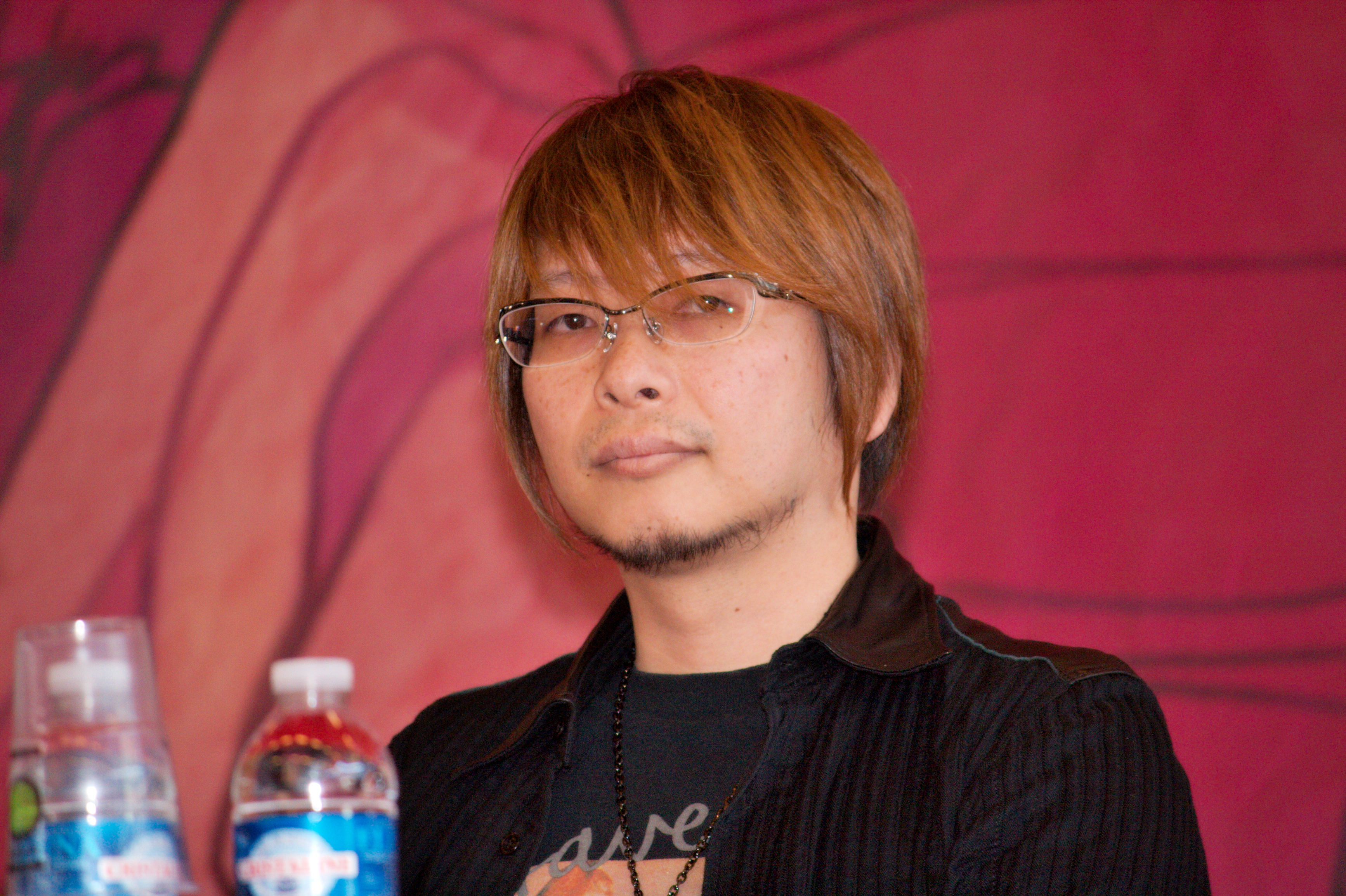 Conference with Oh! great and Yutaka Izubuchi at Japan Expo 2008 (Paris, France).